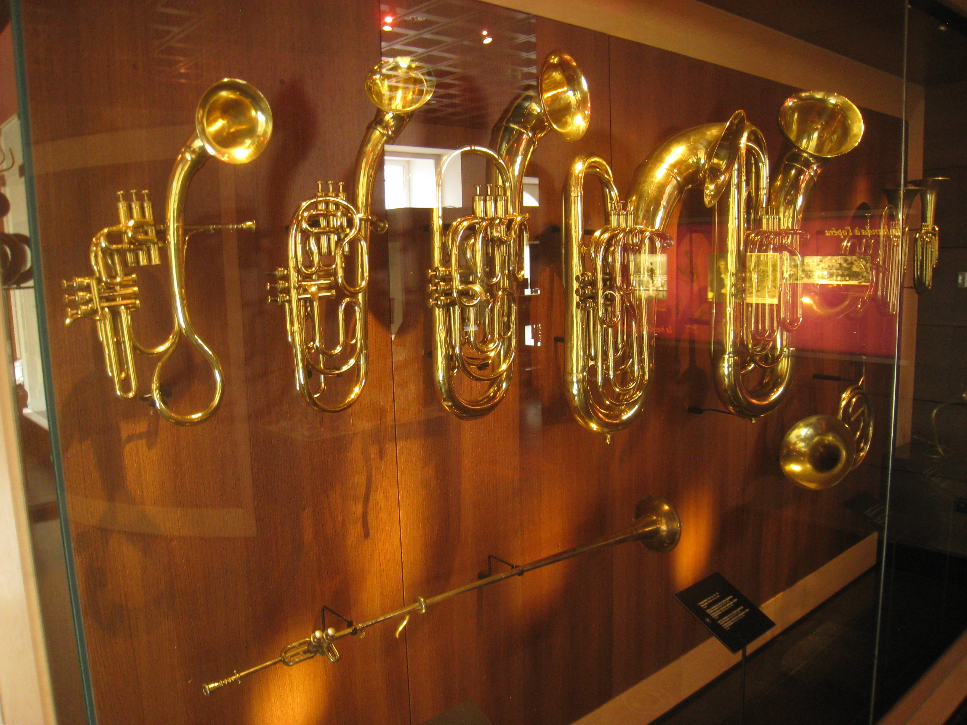 Brass instruments in the Musical Instrument Museum, Brussels, Belgium.